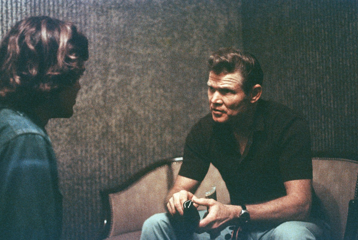 Vassar Clements, Seattle, 1974. Item 77615, Bumbershoot Festival Records (Record Series 5807-05), Seattle Municipal Archives.